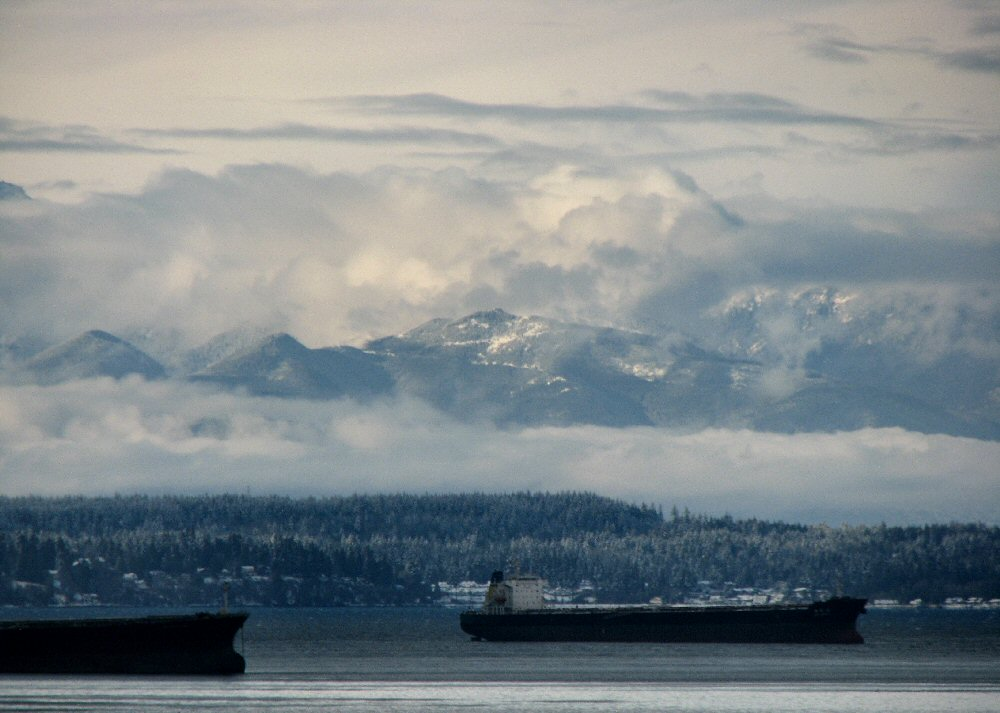 monday, december 22nd 2008. Photo demonstrating the rain shadow effect of the Cascade Mountains in keeping precipitation carrying weather fronts over the Puget Sound region and leaving the area east of the Cascade arid and desert like.